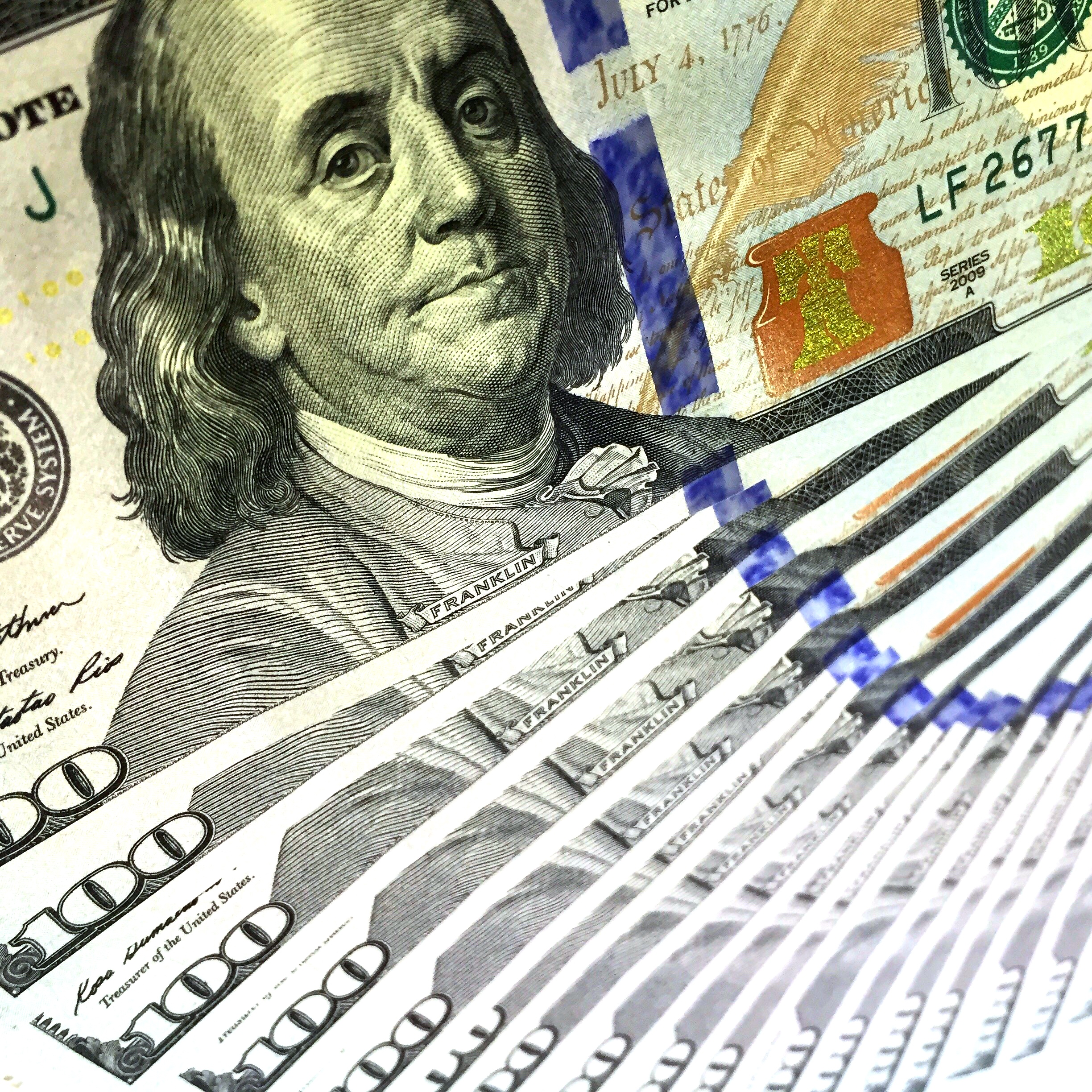 Free For Commercial Use - attribution required as below - Photo by: photoo.uk/ via #FFCU